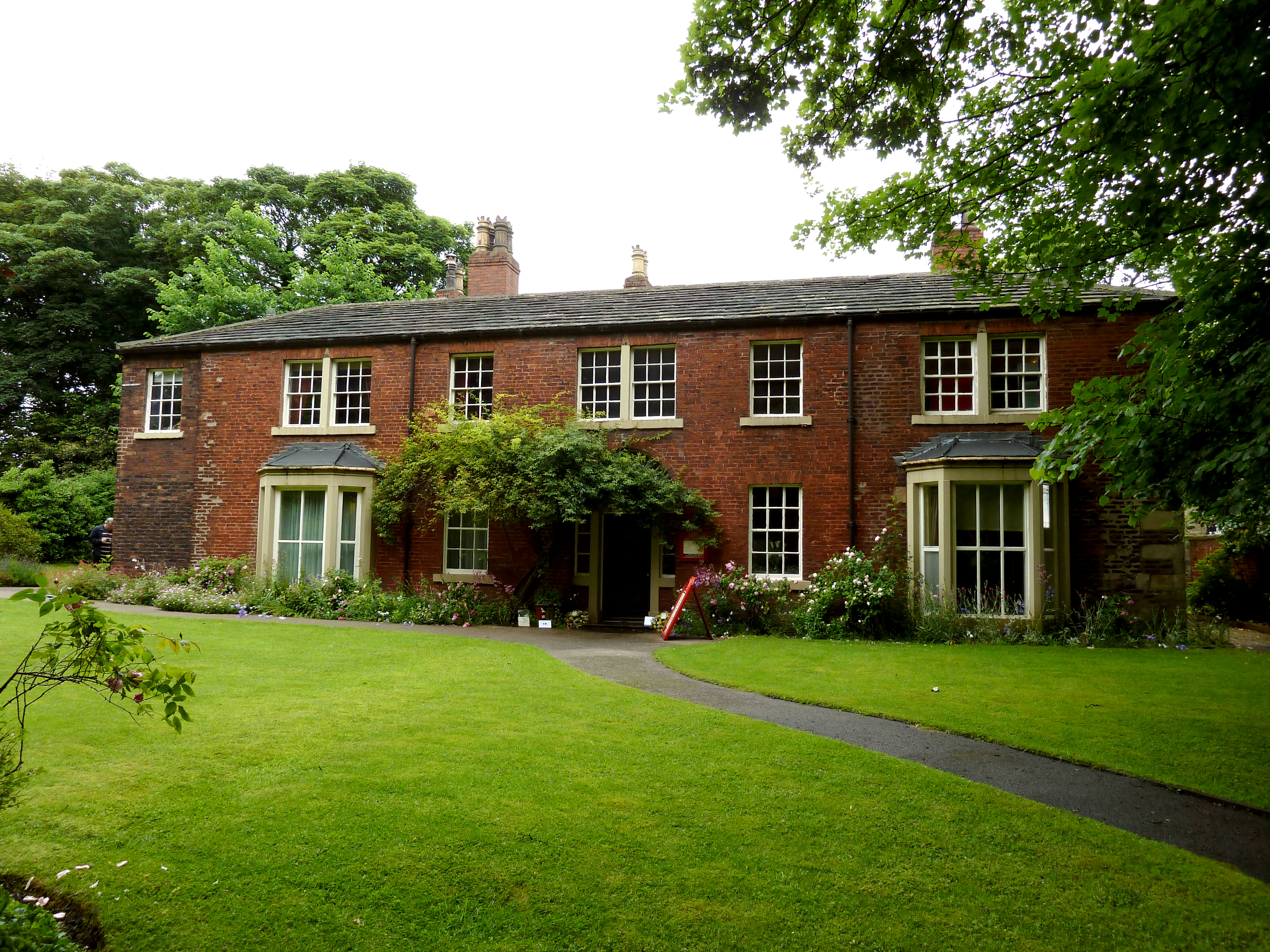 Red House Museum in Gomersal, West Yorkshire, England.